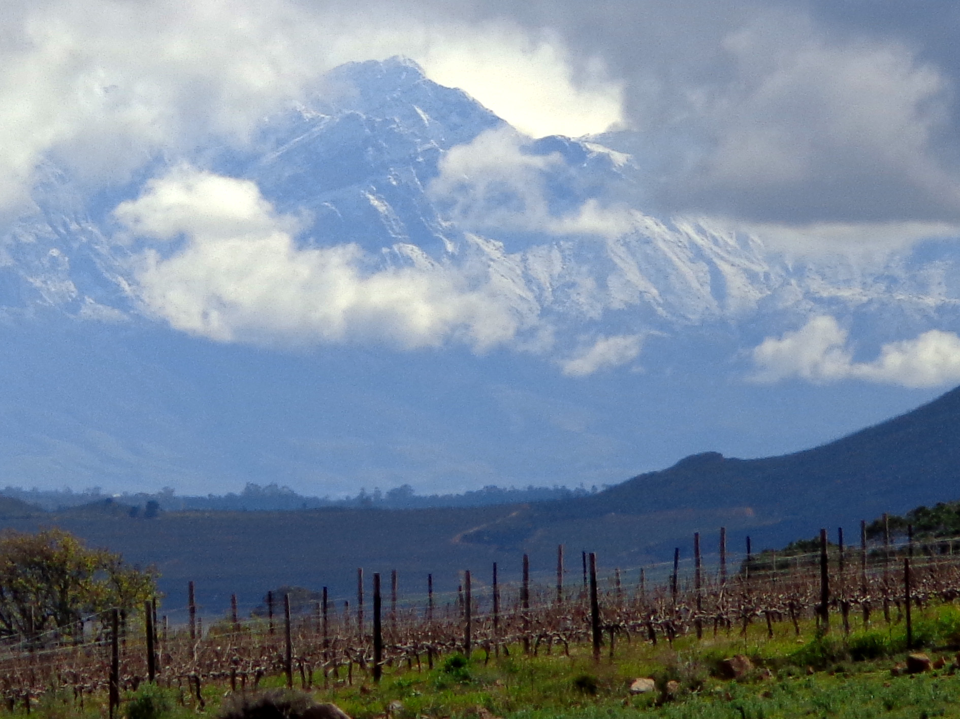 Groot Winterhoek Peak (Great Winter-corner Peak), looming at 2077m, above the northern Breede River Valley.